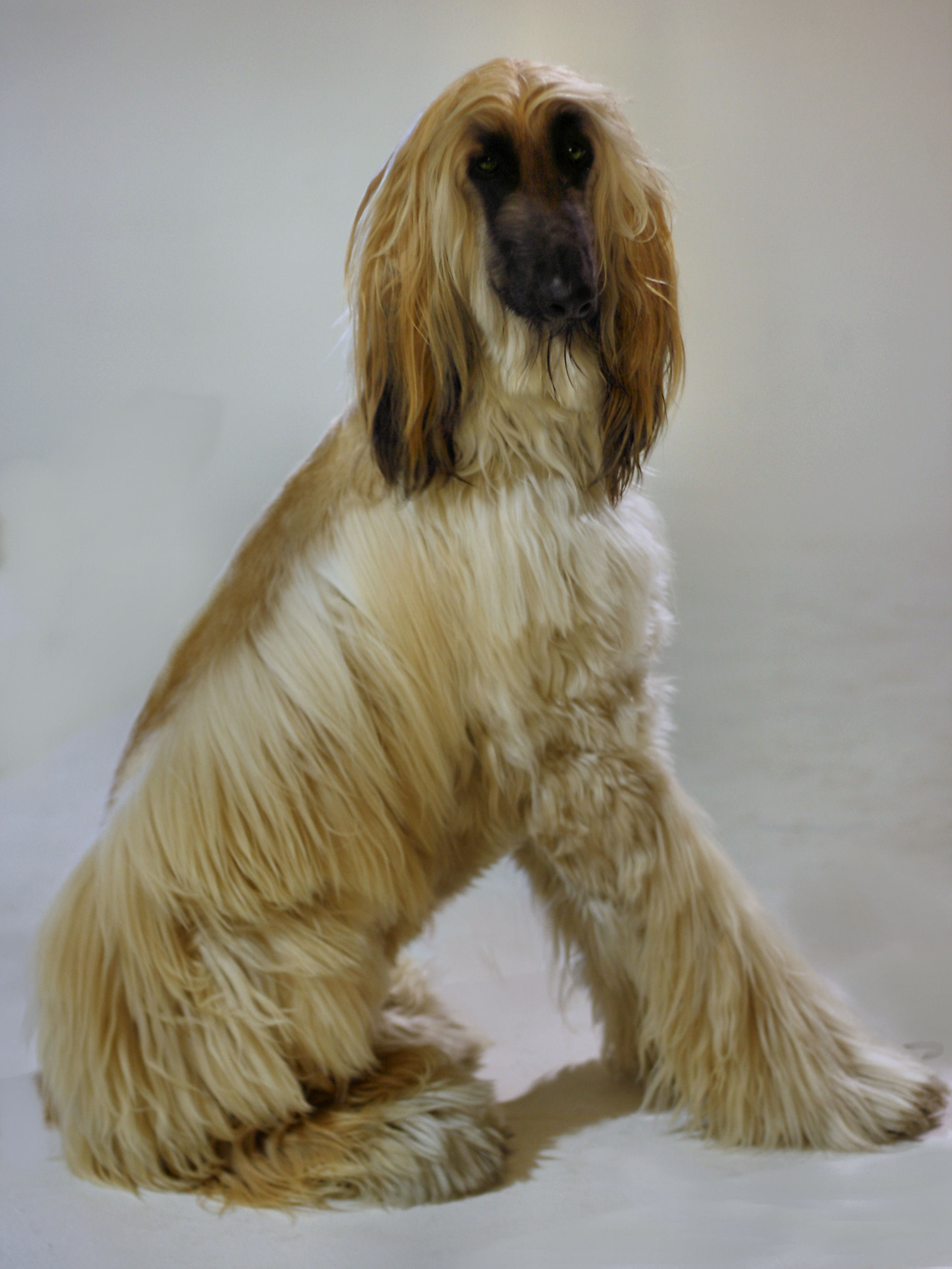 no flash, continuous studio lights (lady wouldn't stop hogging trigger.)